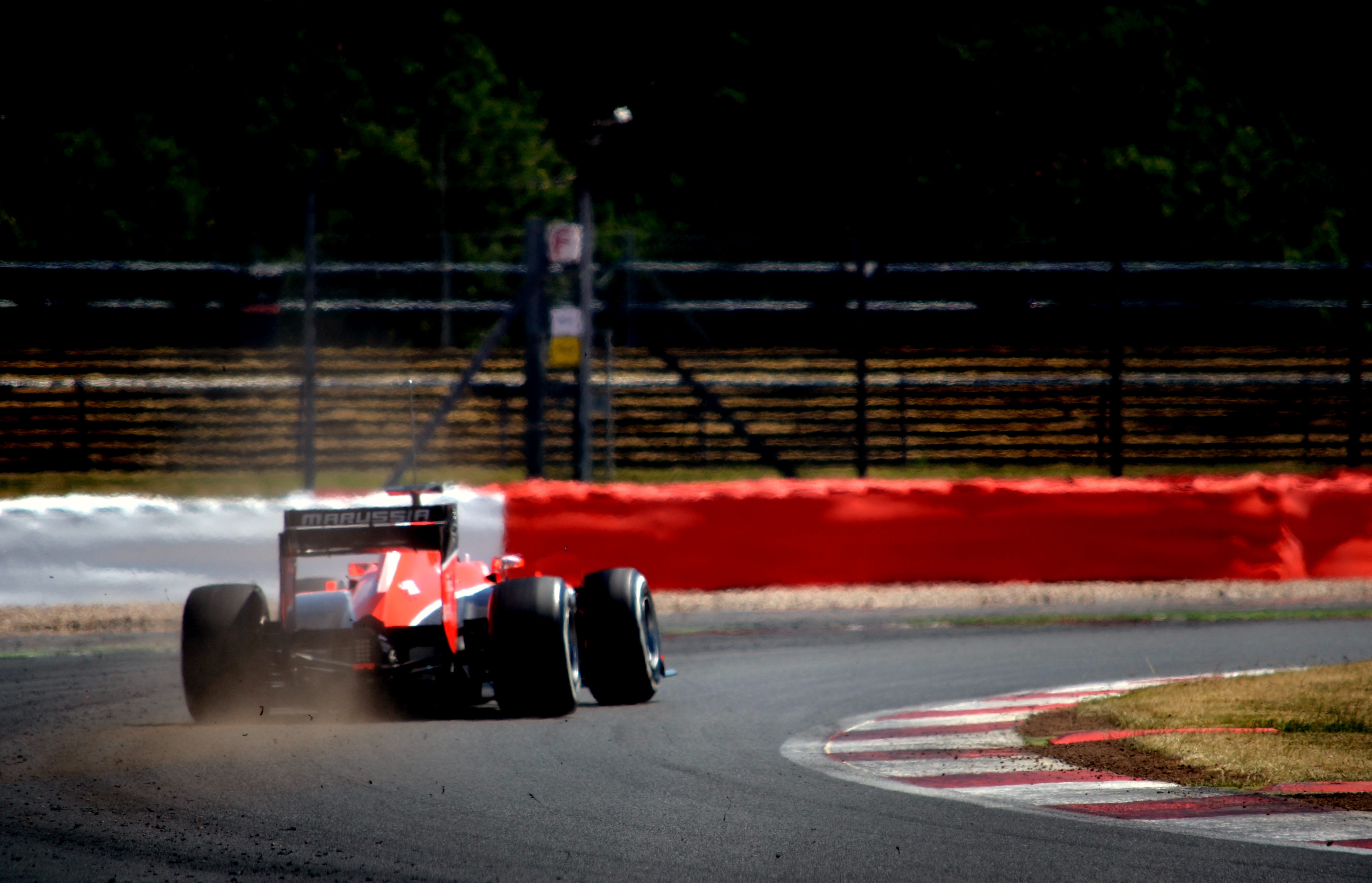 Jules Bianchi driving the Marussia MR02 at the Young Drivers' Test at Silverstone.